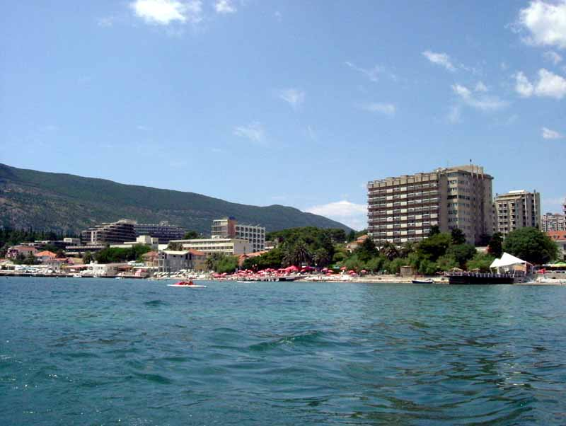 Igalo Photo by: Aleksandar Bogicevic